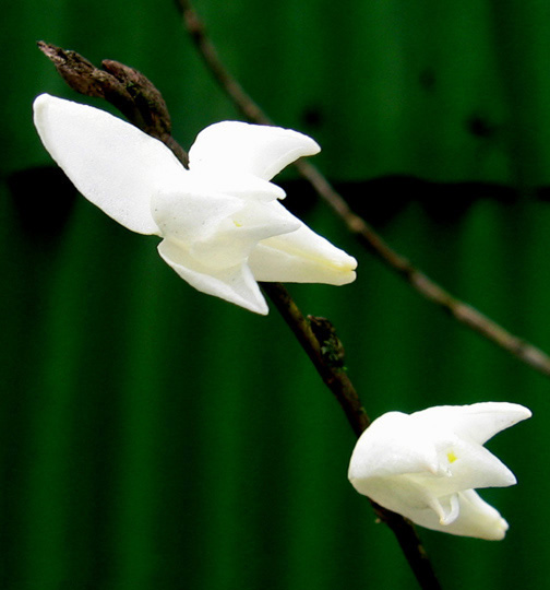 Photo of a Dendrobium crumenatum at a garden in Costa Rica.